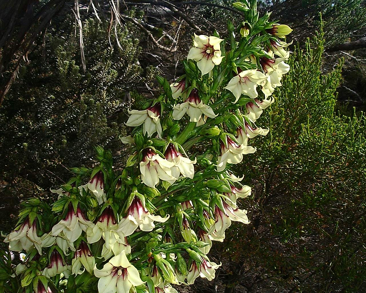 Heterochaenia rivalsii (Campanulaceae) Photo : B.navez - Nov 2002 - Réunion island Detail of flowers